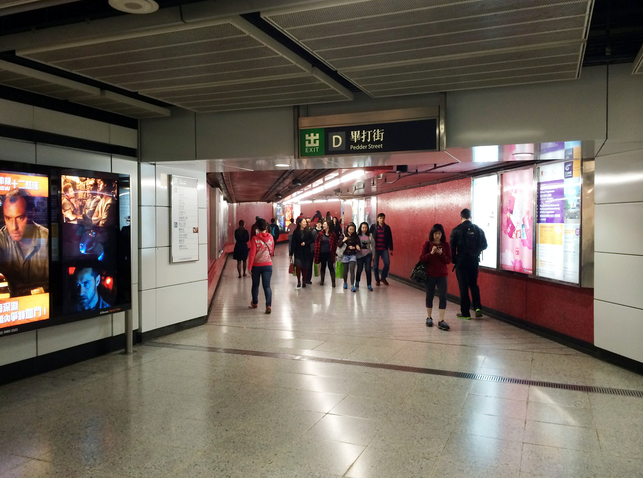 HKMTR Central Station Exit D